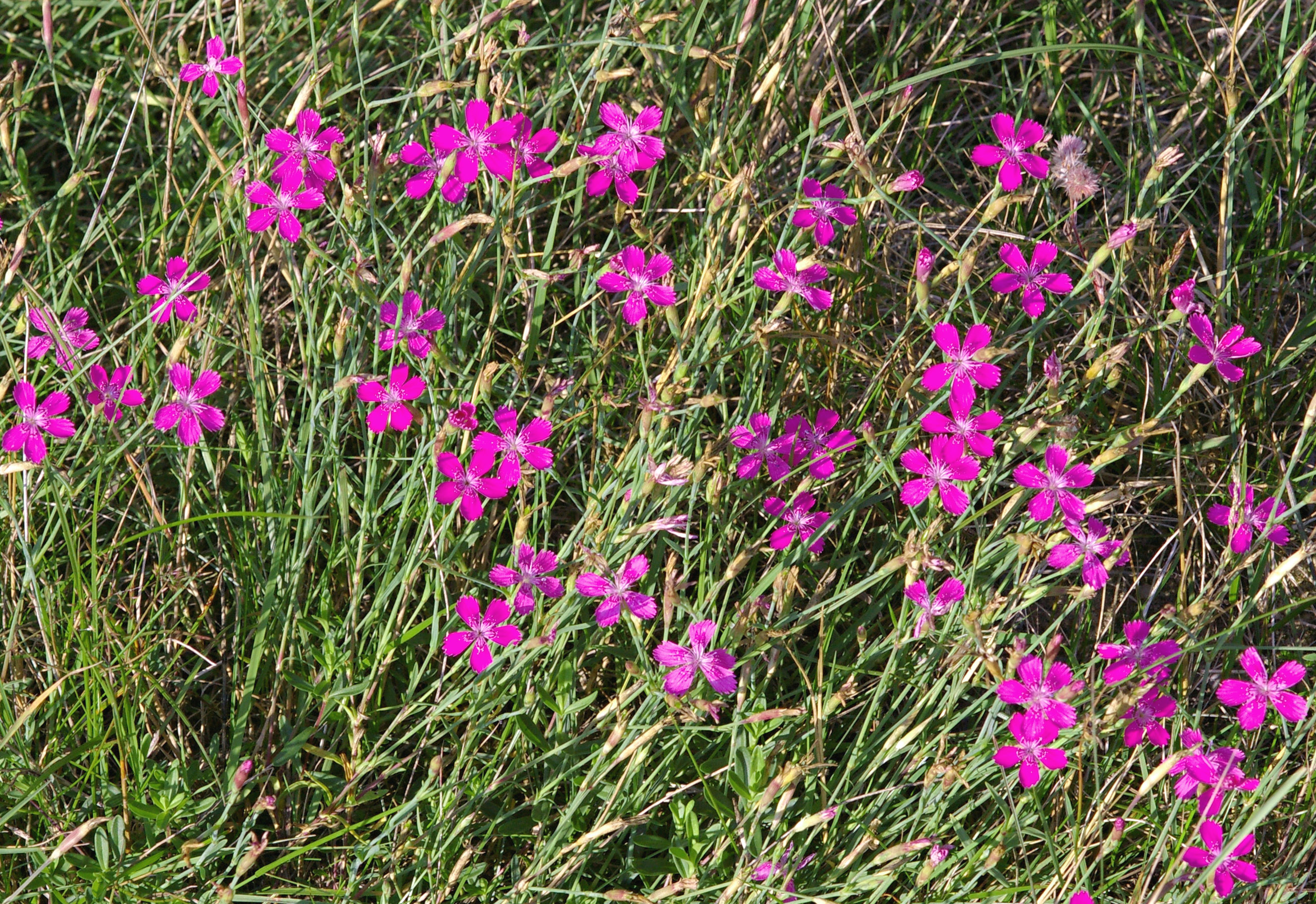 Aspect of Maiden Pink, Dianthus deltoides (subsp. deltoides) (Caryophyllaceae).